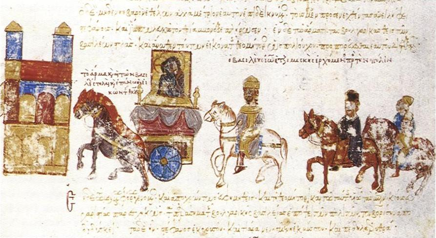 Tzimiskes returns in Constantinople after the capture of Preslav.